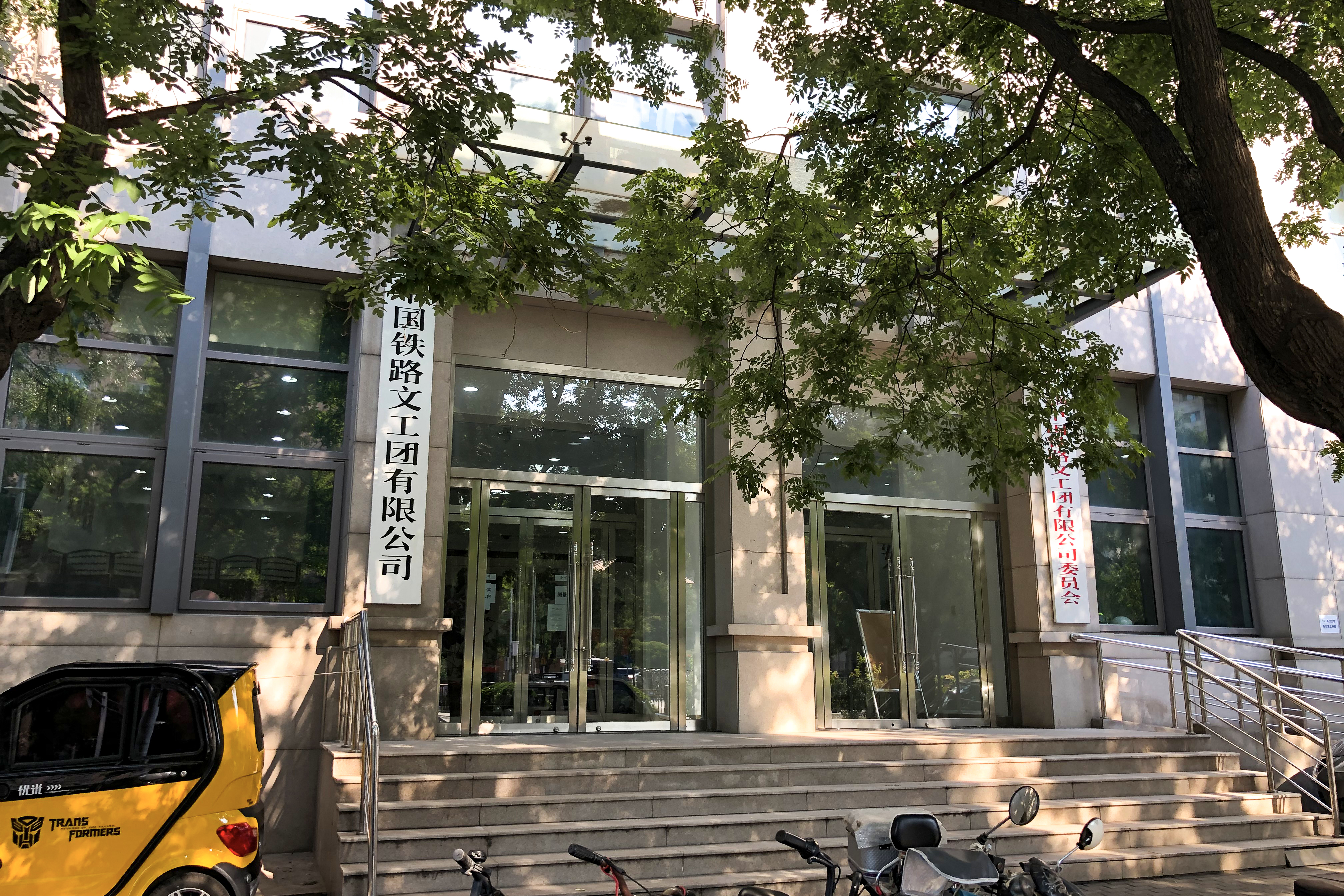 Back of Erqi Theatre, reminding me of Takarazuka.